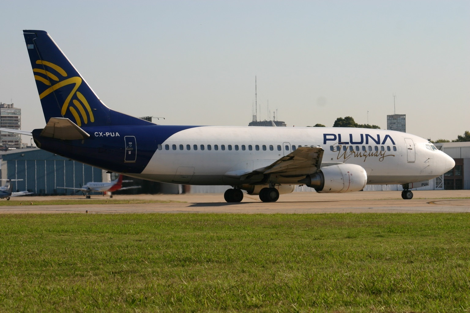 At Buenos Aires Aeroparque